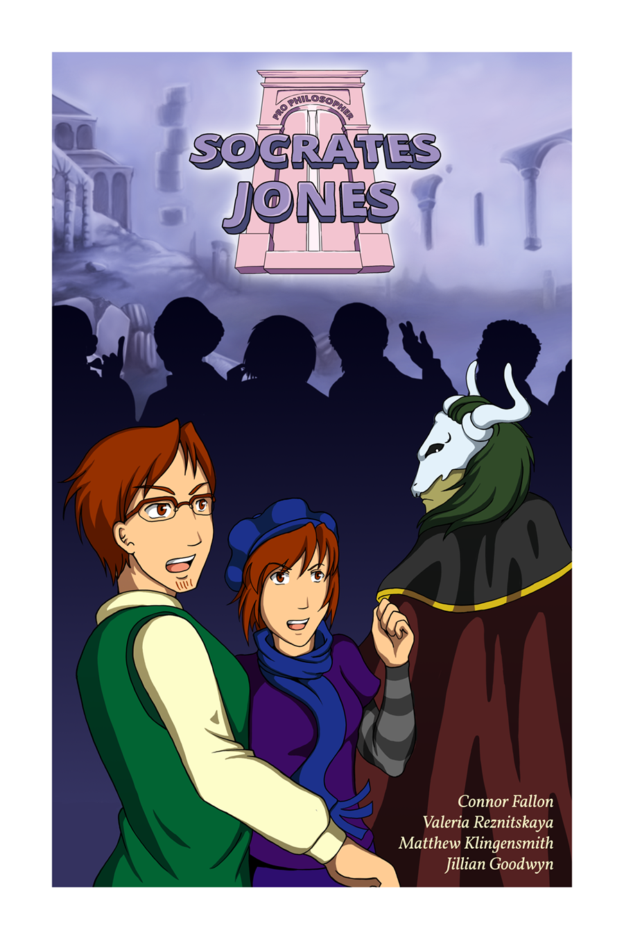 Screenshot from Socrates Jones